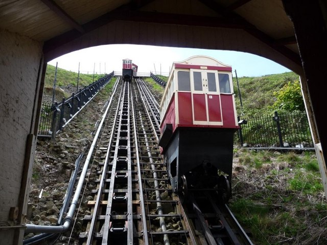 Going up [right] and coming down [left]